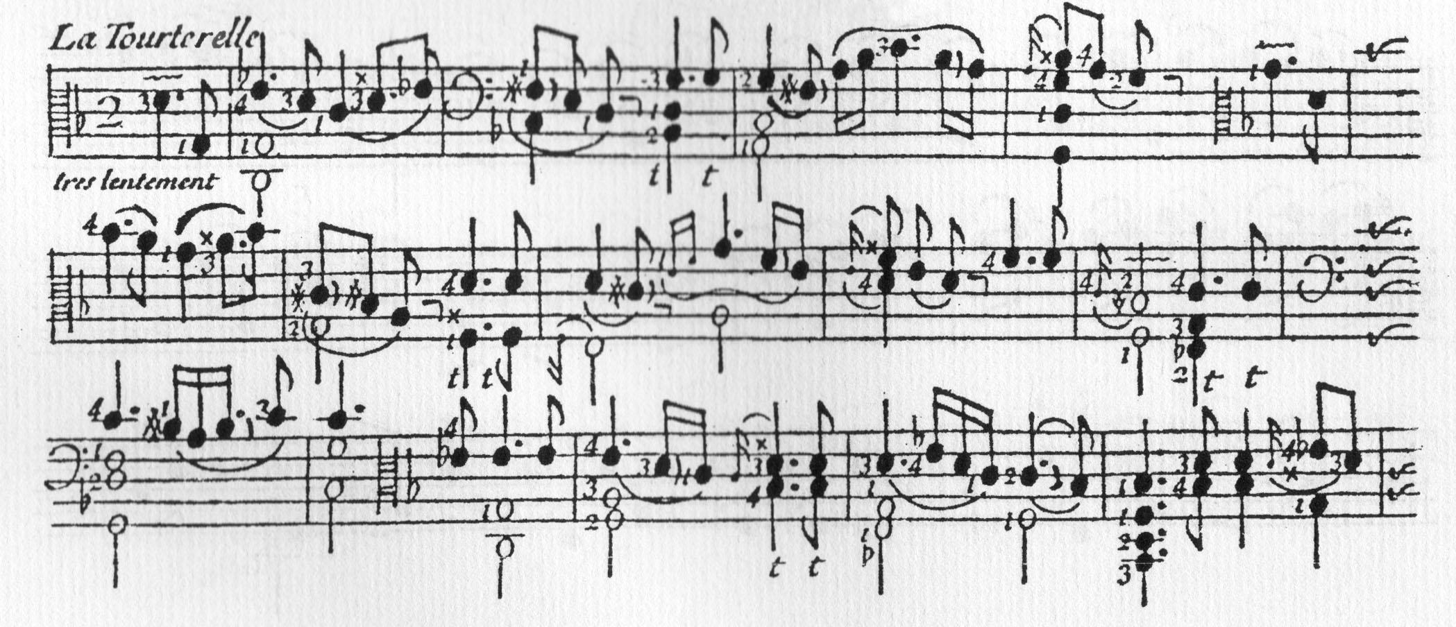 La tourterelle (The turtle dove), a piece for the Viol by Louis de Caix d'Hervelois.